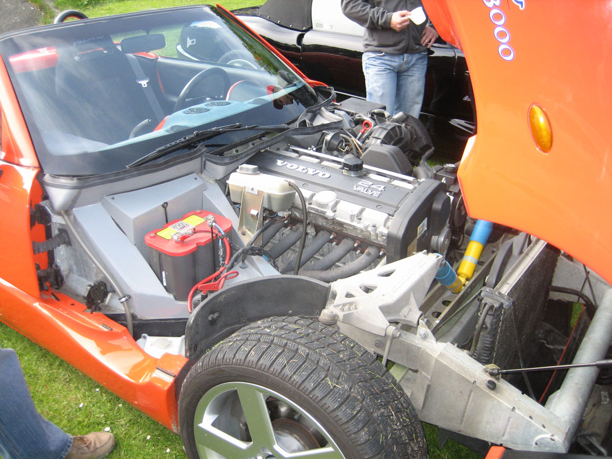 The engine bay of an Indigo 3000. Picture taken by me.